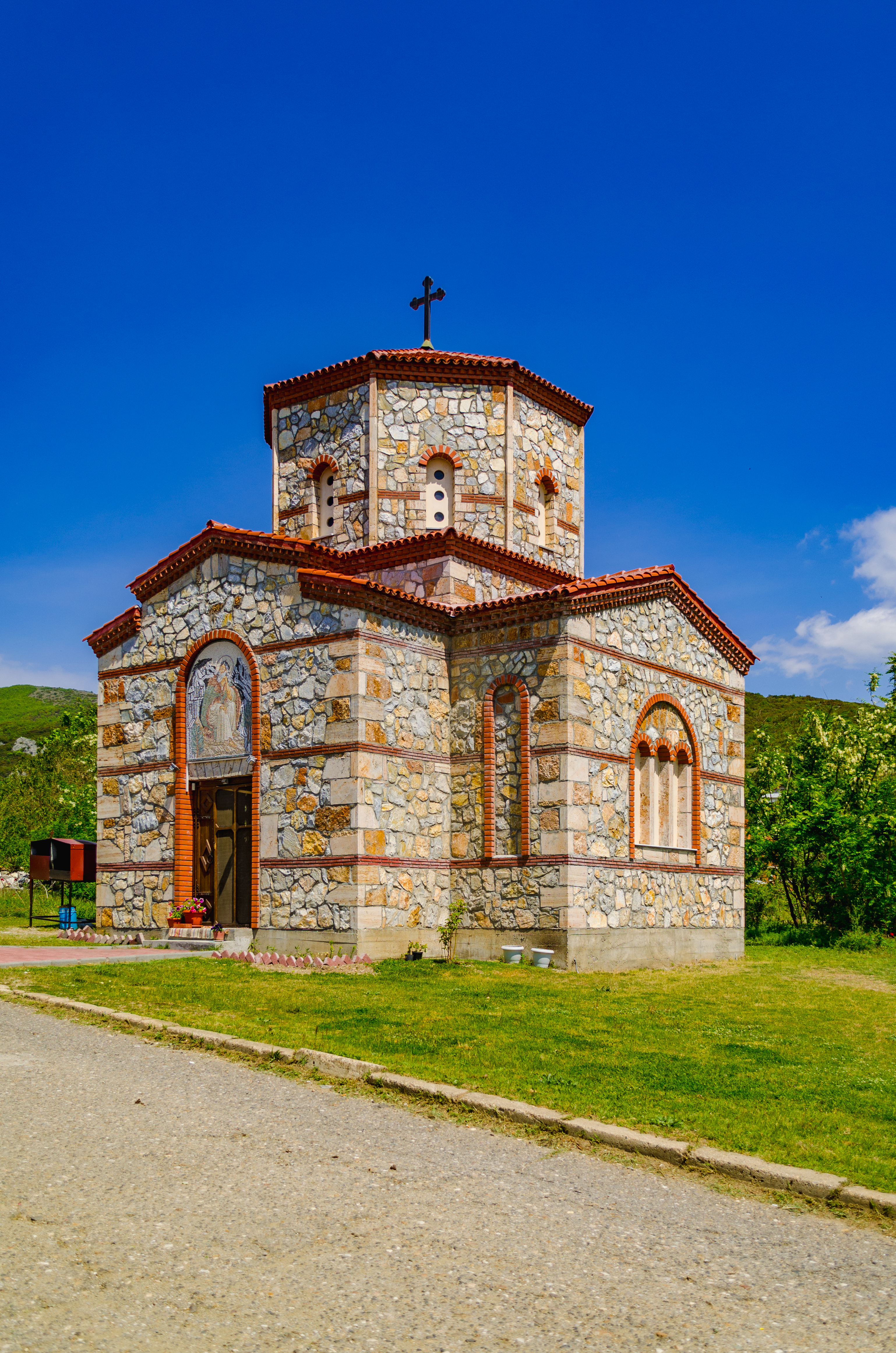 St. Elijah Church in the village Rabrovo